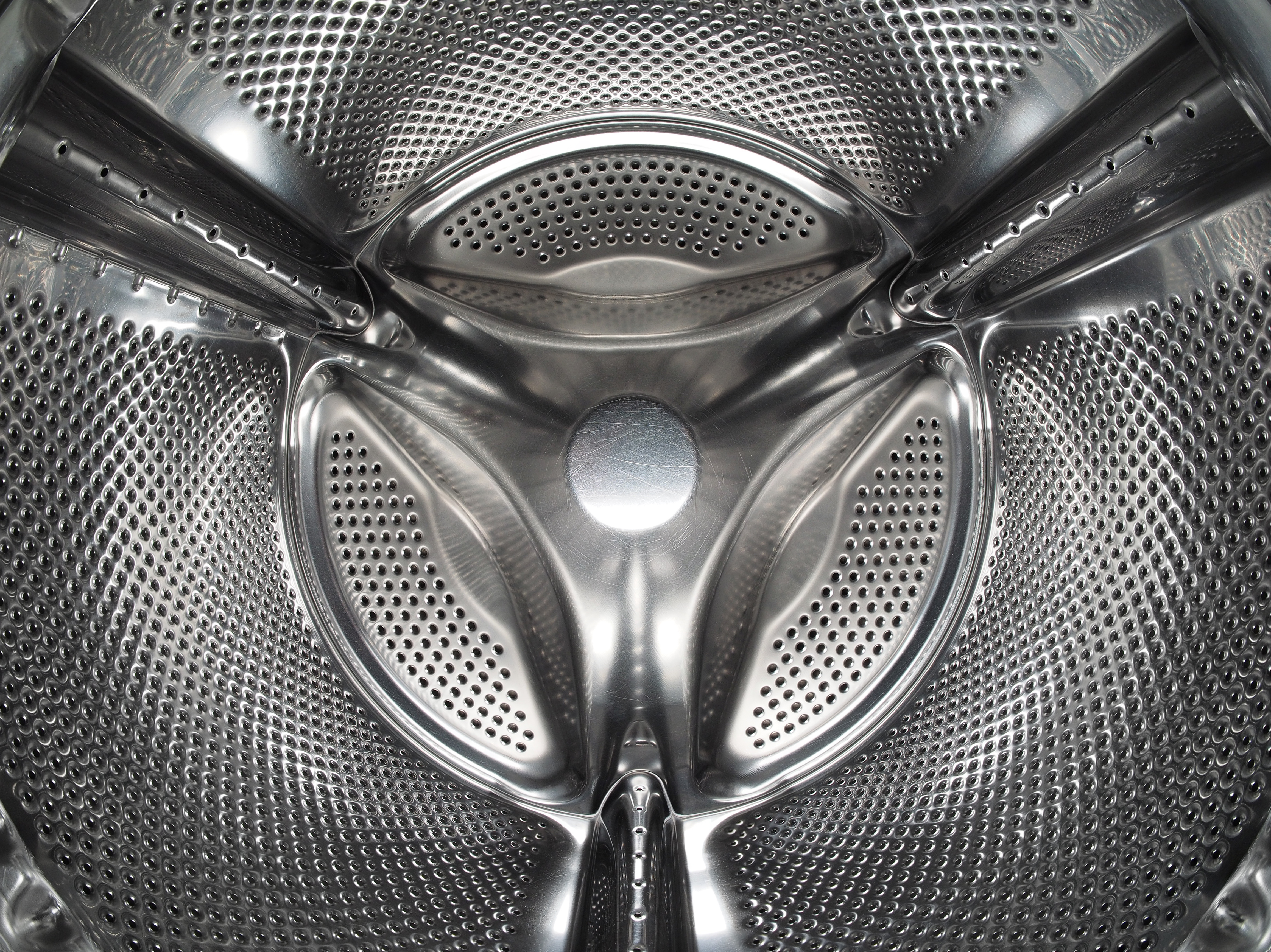 Drum of a front-loaded washing machine (Bosch Maxx WFO 2440; 5 kg; 1200 RPM) This photograph was taken with an Olympus E-M1